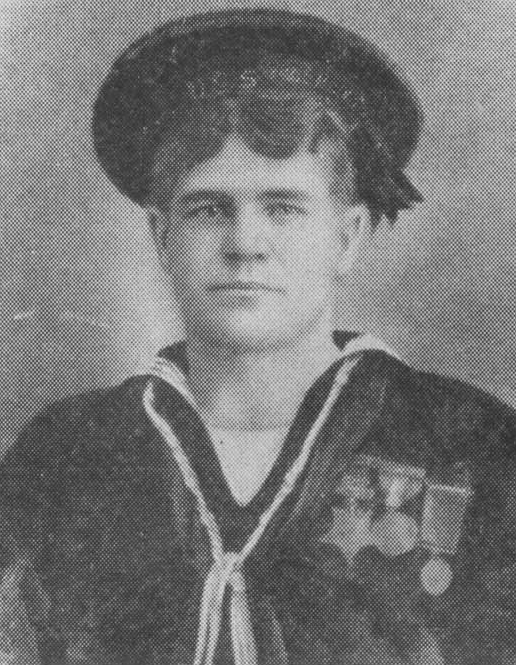 Seaman Willard Dwight Miller, United States Navy. A Canadian who served in USS Nashville (Gunboat # 7) during the Spanish-American War. Both he and his brother, Harry H. Miller, were awarded the Medal of Honor for exhibiting "extraordinary bravery and coolness" during the 11 May 1898 telegraph cable cutting operation off Cienfuegos, Cuba. This is a halftone reproduction. Courtesy of the Army Museum, Halifax Citadel, Halifax, Nova Scotia, Canada, 1971.